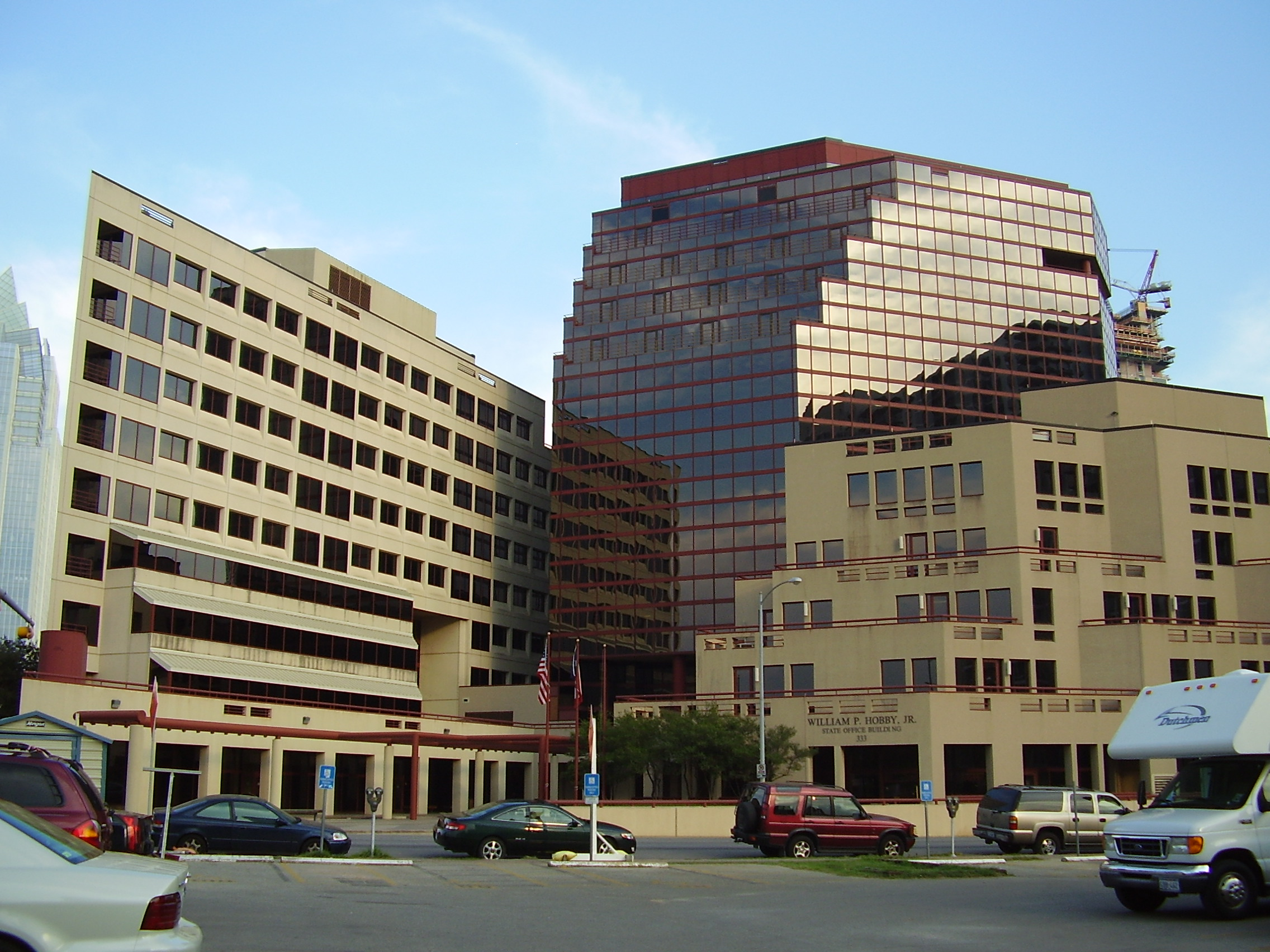 William P. Hobby State Office Building. It includes offices for the Texas Department of Insurance, the Texas Medical Board, and the Texas State Board of Examiners of Psychologists.